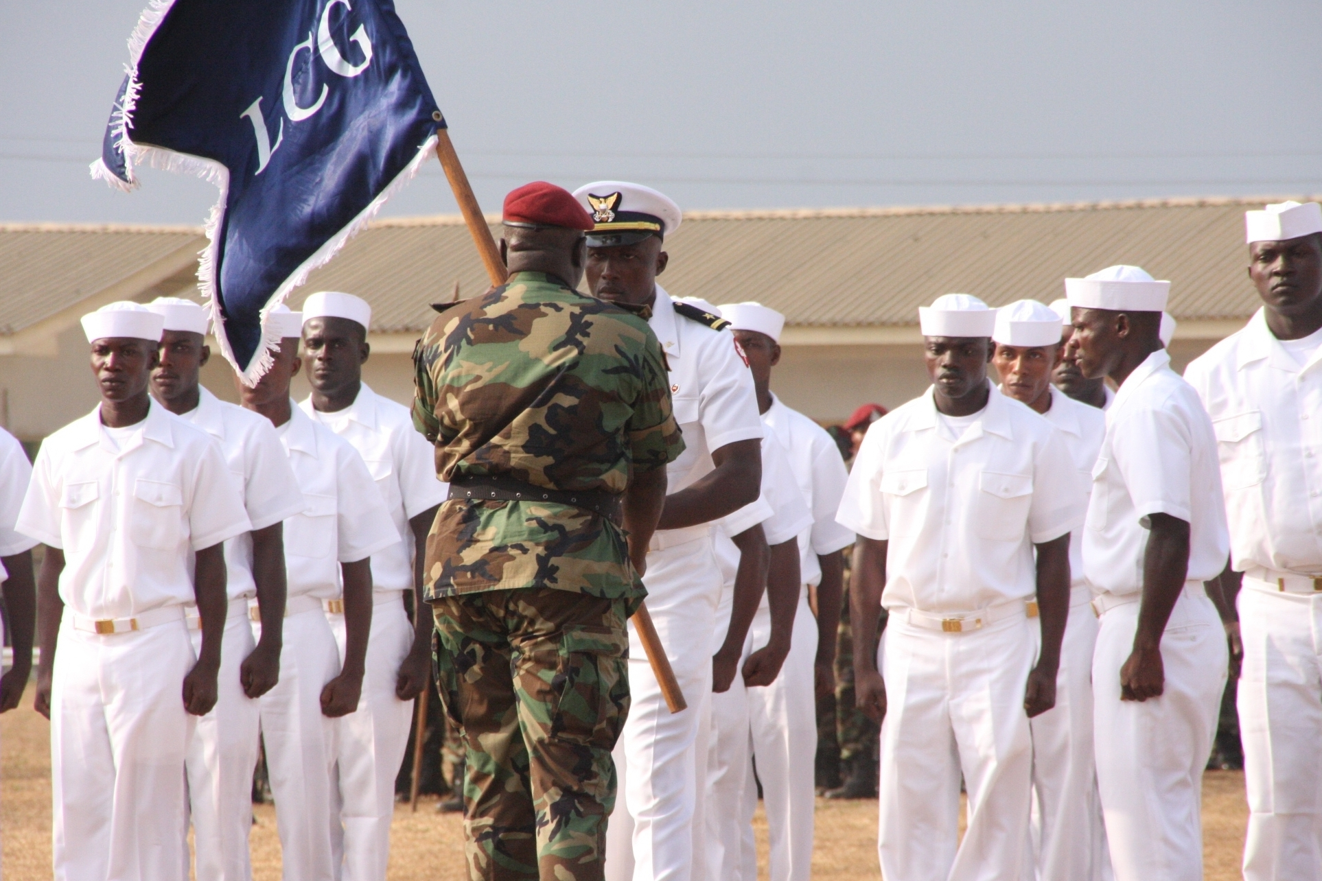 Review of Liberian Coast Guard by the Chief of Staff of the Armed Forces of Liberia, Major General Suraj Abdurrahman of the Nigerian Army, on Armed Forces Day, 2010.